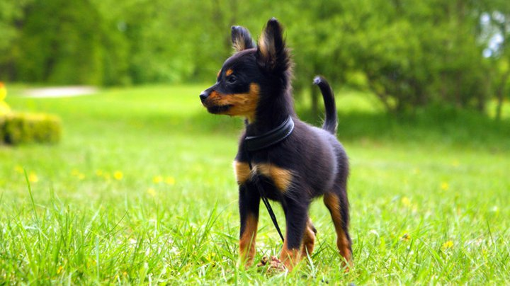 Russian toy - puppy, 4 months of age.